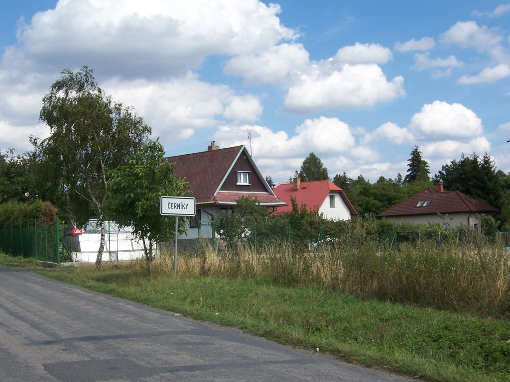 Zvole, Černíky